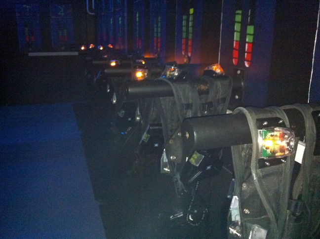 A picture of commonly used laserdome equipment.